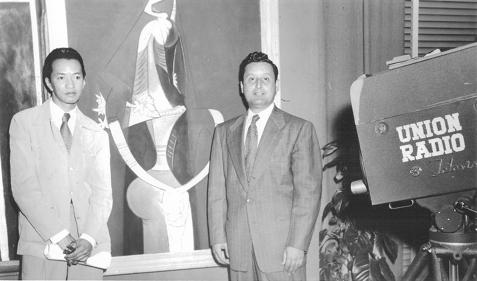 Carbonell was the host and interviewer for a weekly television program in Havana, Cuba, where he interviewed artist as his topic of discussion, to include Wifredo Lam amongst others